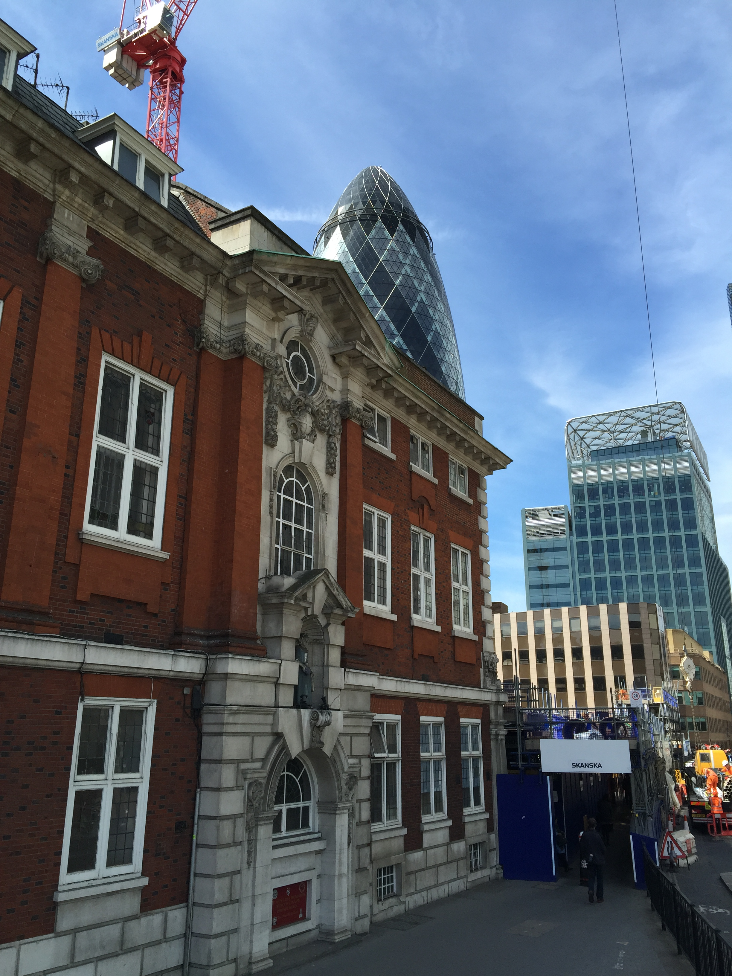 The front of Sir John Cass's Foundation Primary School.